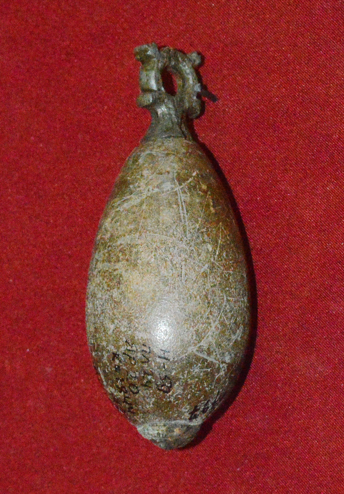 Striking weight of flail weapon, Novgorod, end of 11 - first half of 12 c.